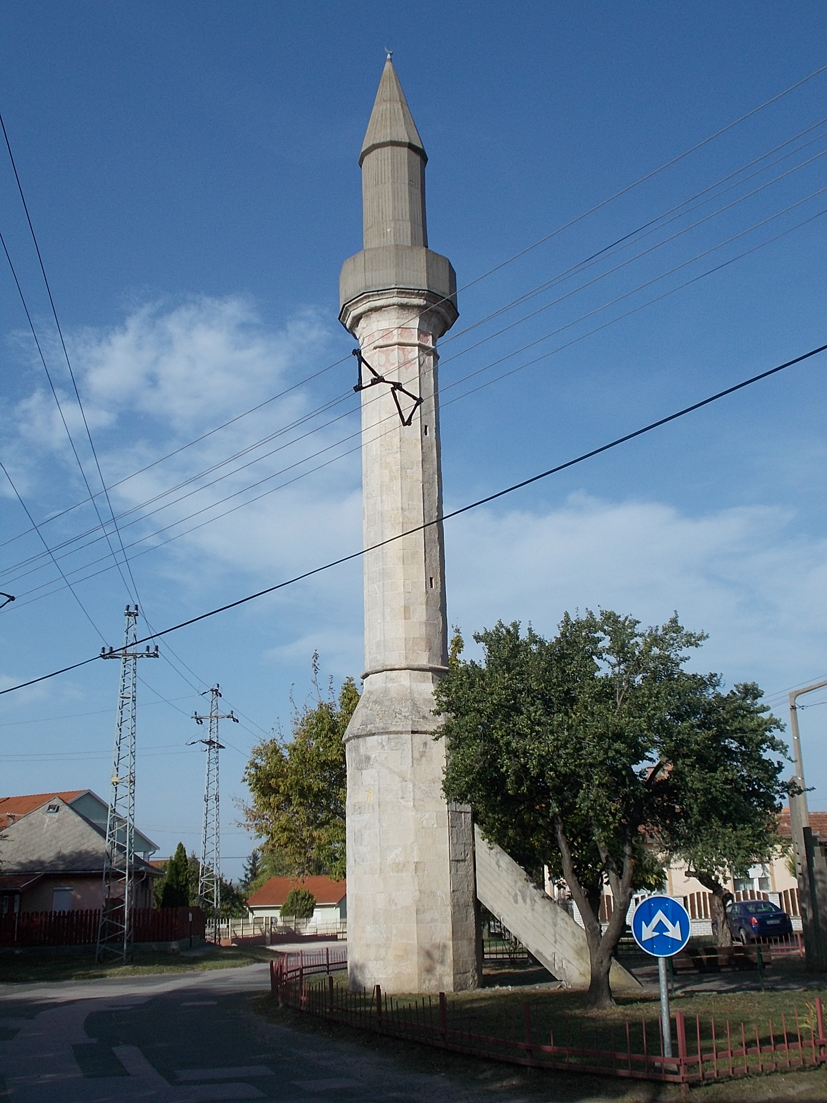 Minaret. Listed ID 7014. - Mecset Street, Ófalu, Érd, Pest County, Hungary.